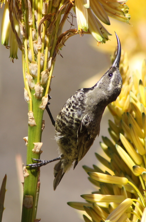 Female amethyst sunbird (Nectarinia amethystina).